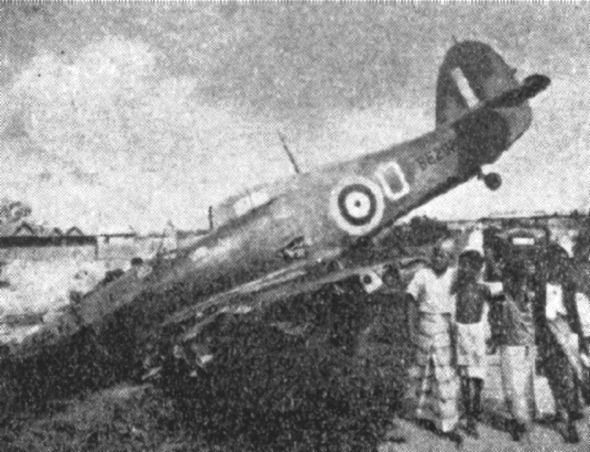 Squadron Leader Richard "Rickey" Brooker's Hawker Hurricane Mk.II of No. 232 Squadron RAF. He was shot down on February 8, 1942, crashing on East Coast Road uninjured. Note the squadron leader's pennant below the cockpit and the No.232 Fighter Squadron RAF. It was abandoned and captured by the IJAAF.